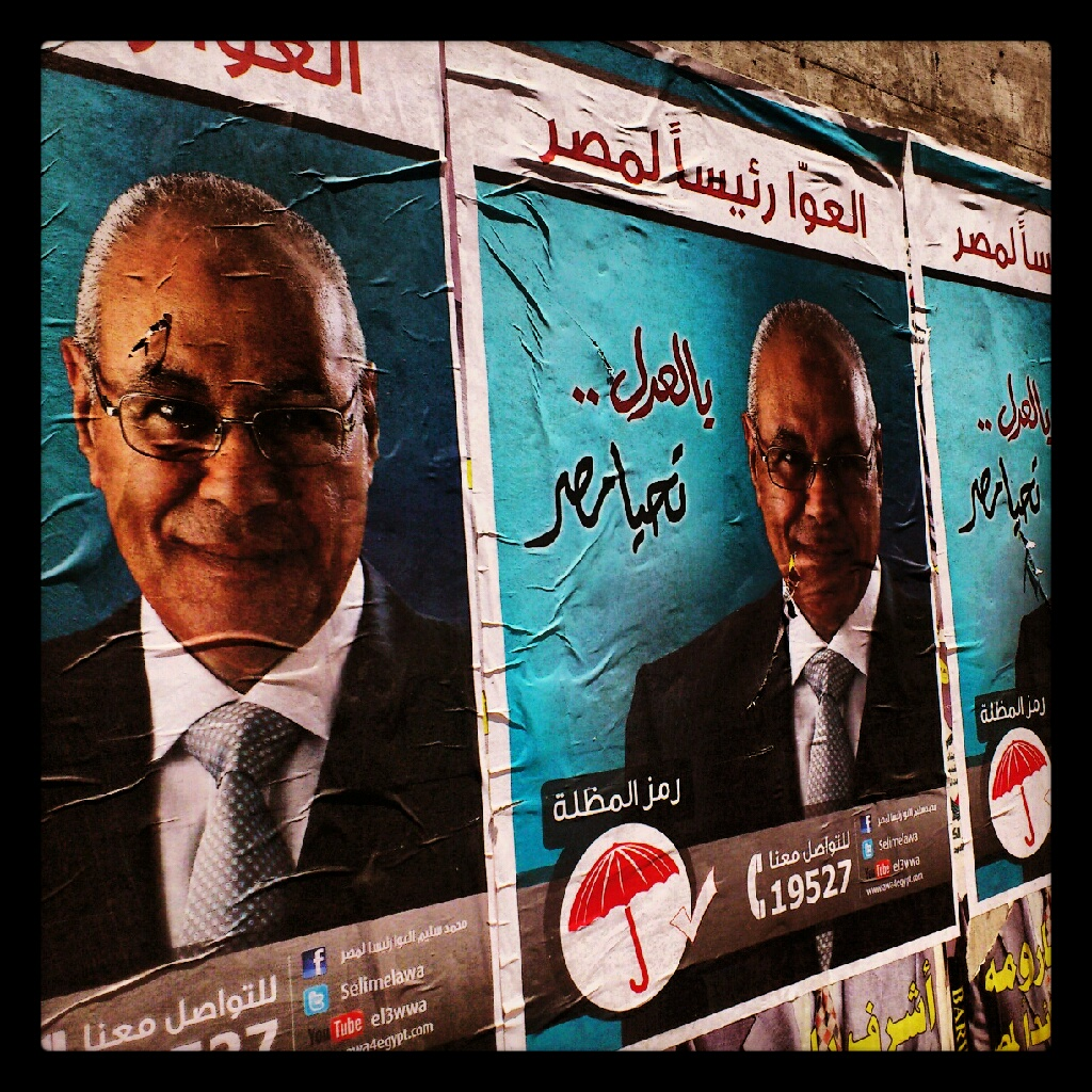 Egypt presidential elections posters. Egyptian presidential election 2012.